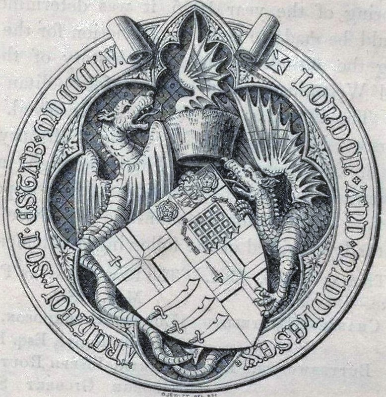 Original device of the London and Middlesex Archaeological Society, 1855/6, engraved by Orlando Jewitt